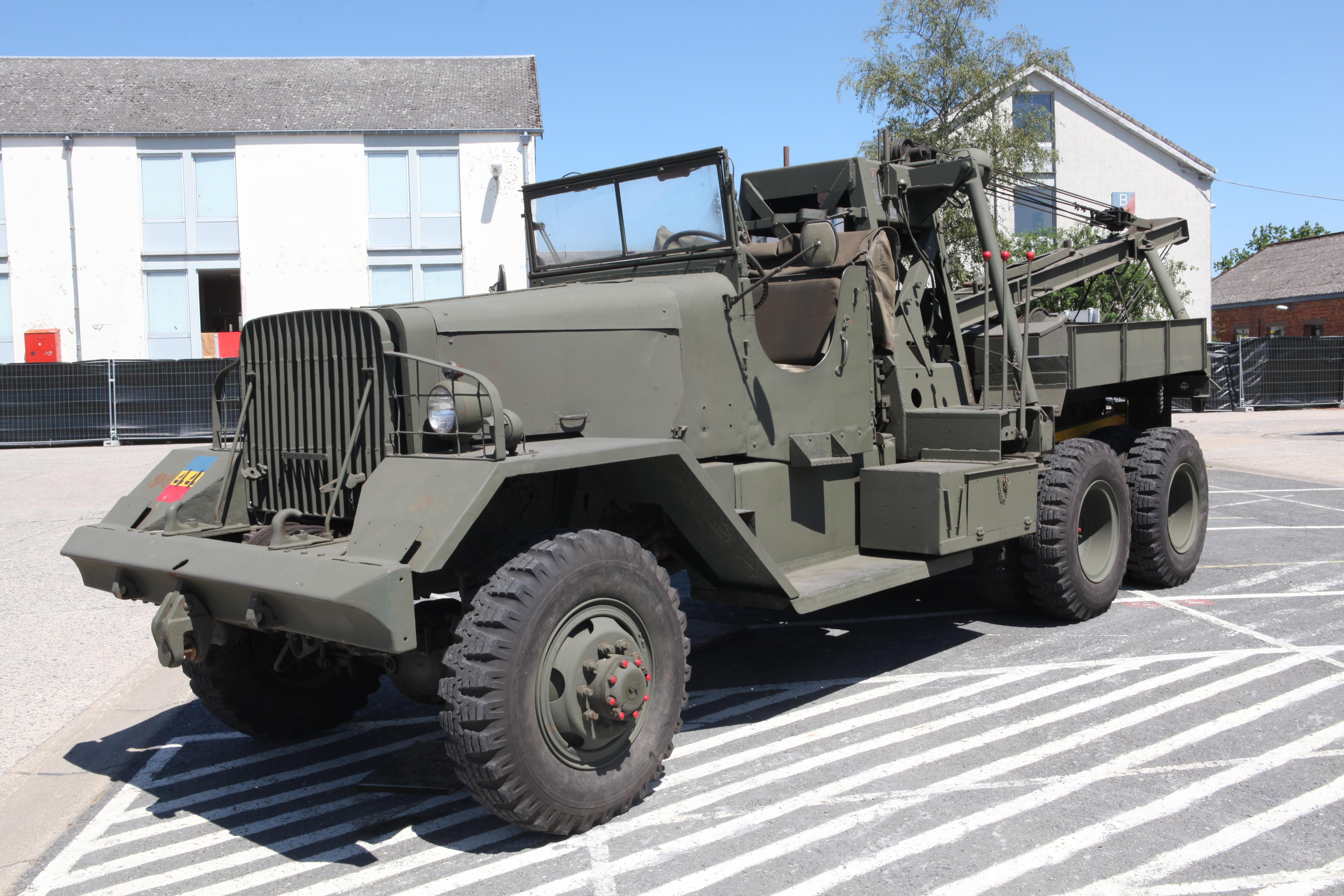 Ward La France M1A1 Heavy Wrecker